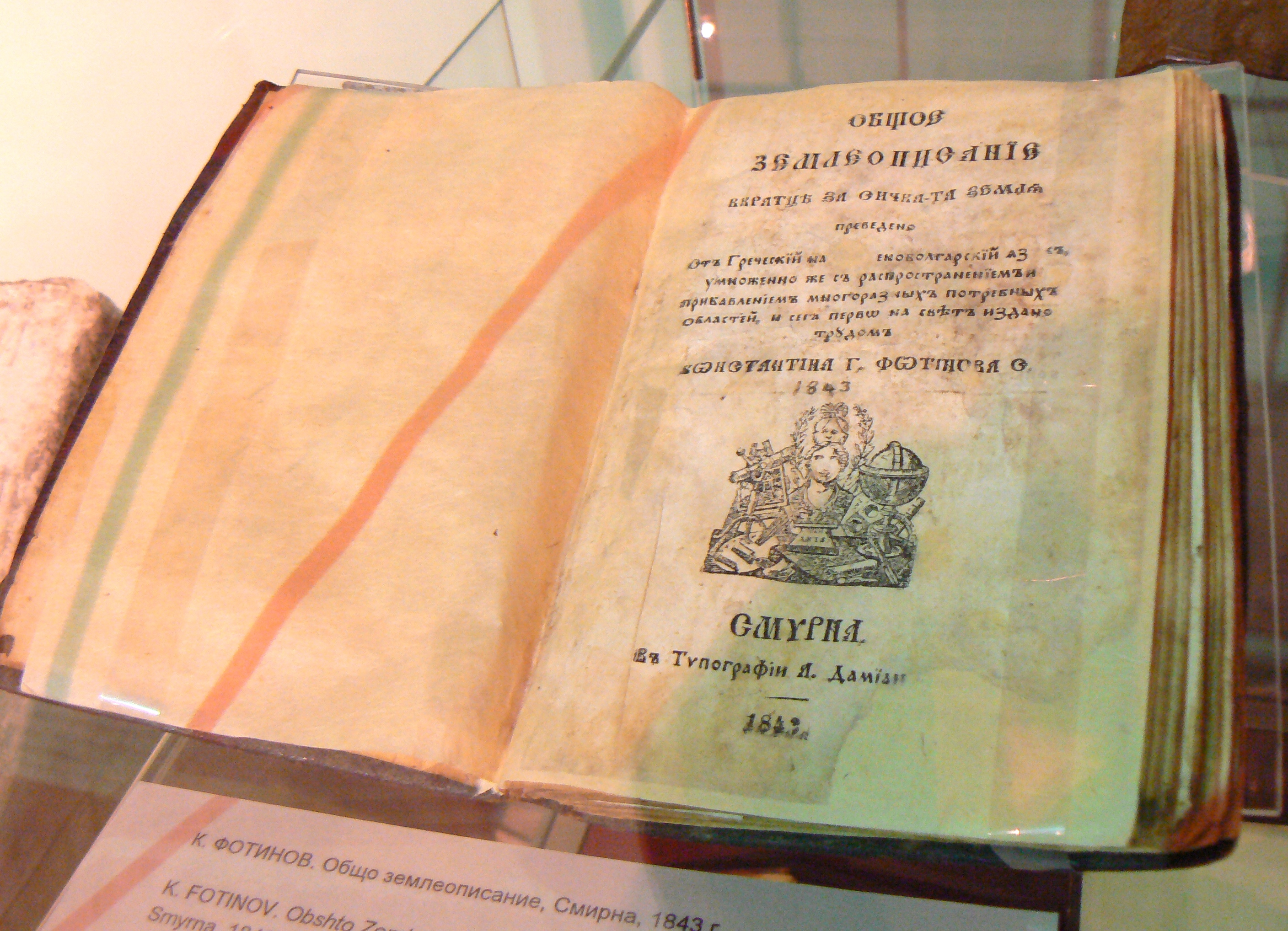 "Obshtoe zemleopisanie" ("Common description of the Earth") translated by Konstantin Fotinov and published in 1843. Exhibit of the National History Museum of Bulgaria